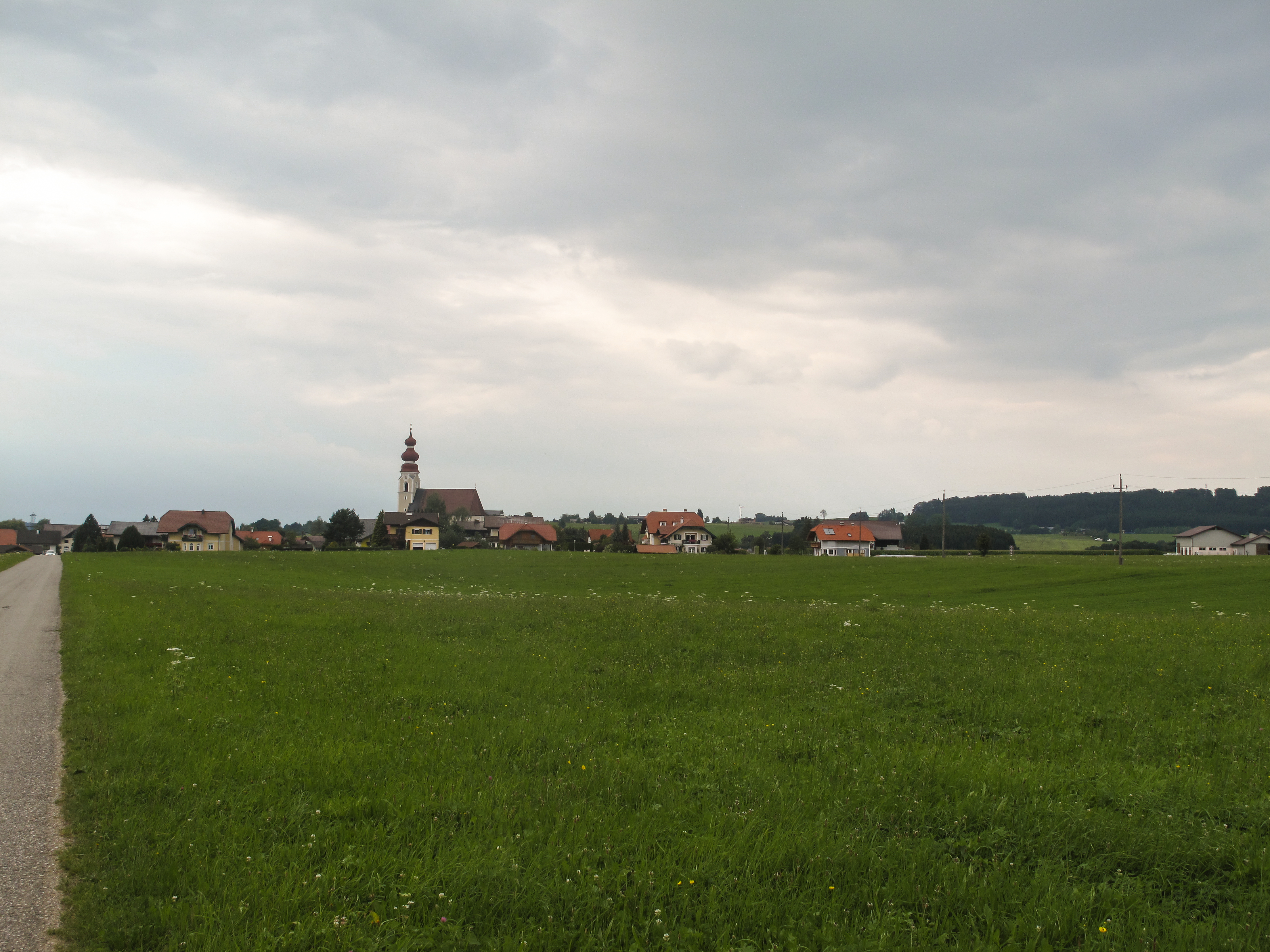 Irsdorf, view ro the village